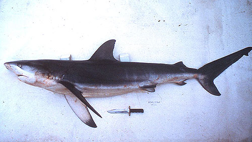 Dusky shark (Carcharhinus obscurus)